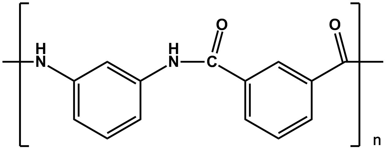 Chemical structure of Nomex polymer.